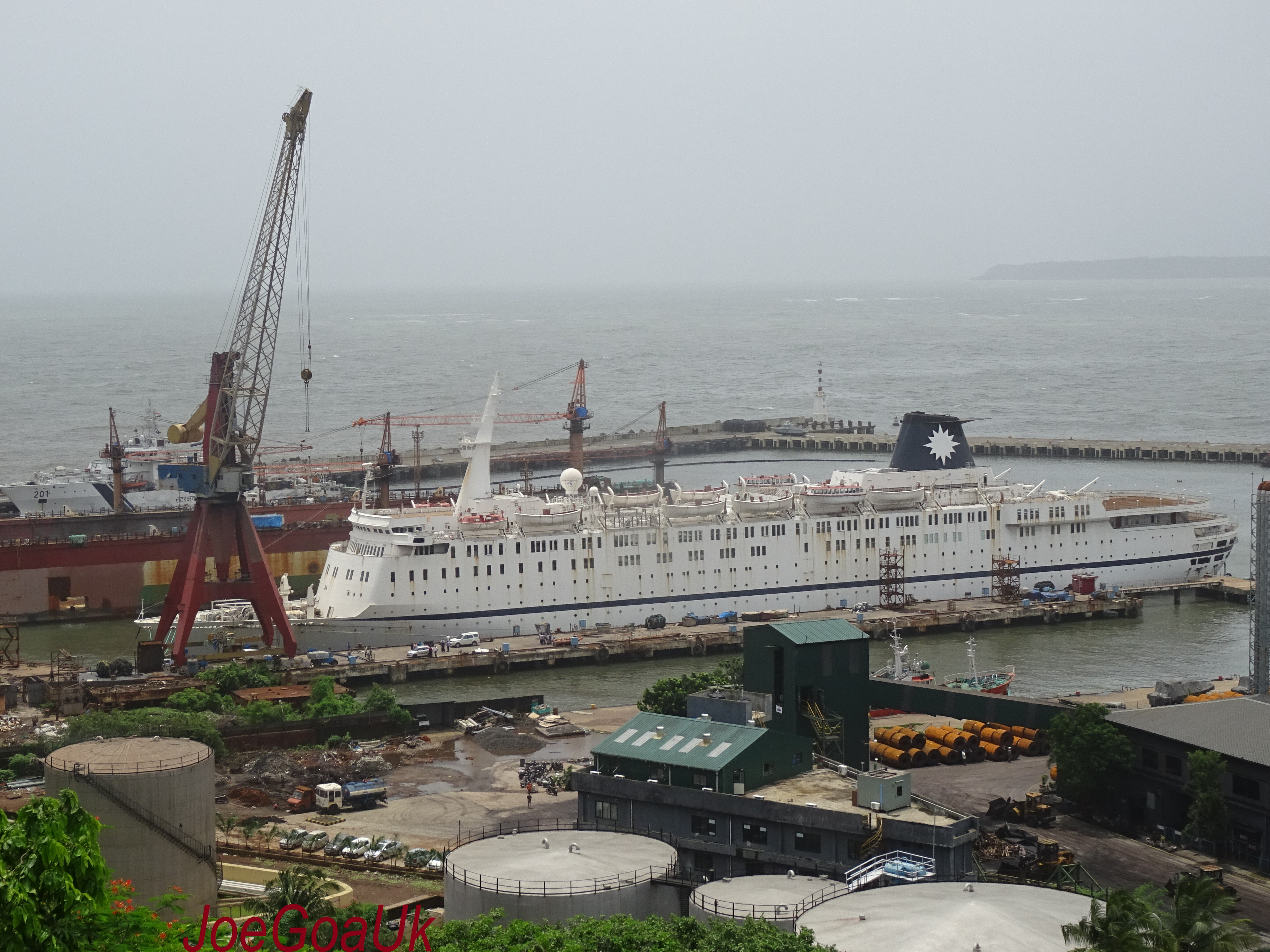 Video Latest video 5.5.2018 MV QING Sahara india dockedyard since 9.1.14. in the news recently - Tilted ship western India Shipyard Ltd